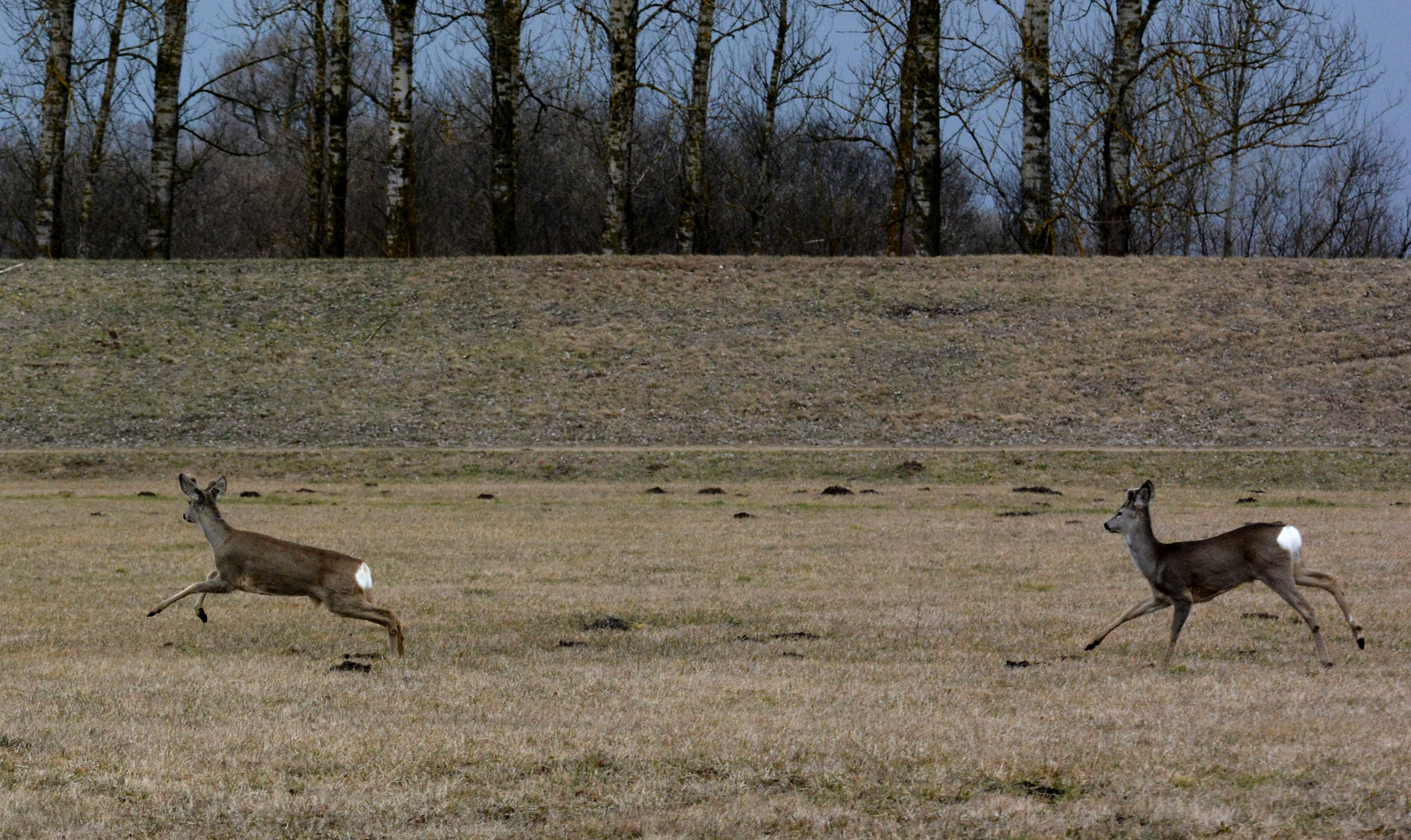 Capreolus capreolus near Łochów, Poland